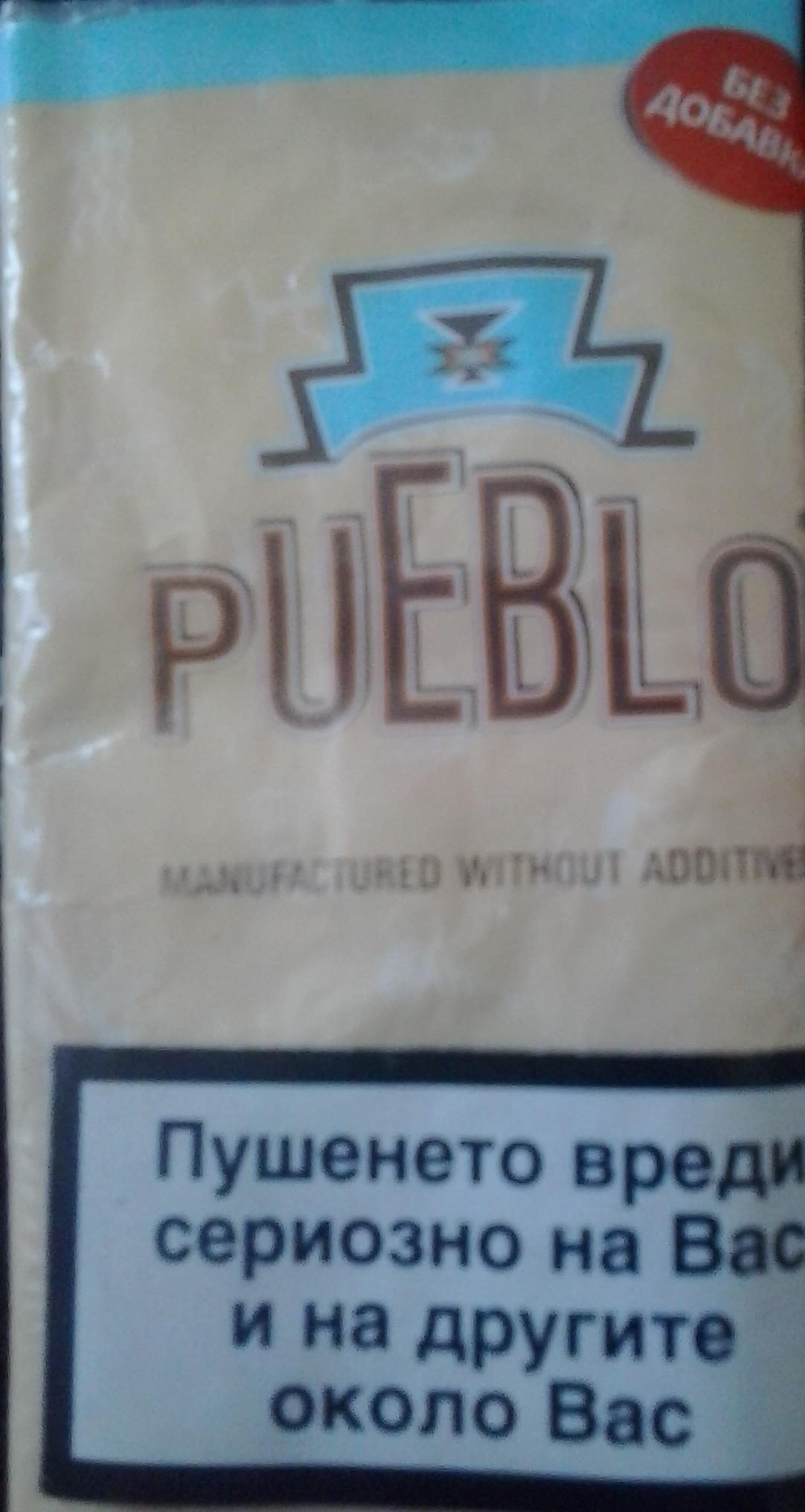 Pueblo tobacco